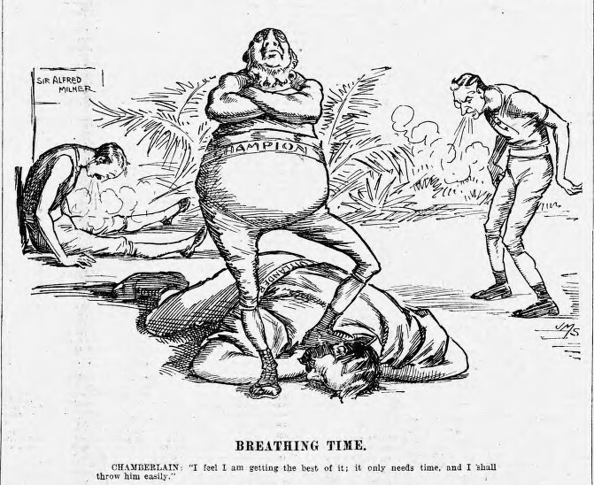 'Breathing Time' - JM_Staniforth political cartoon in which Joseph Chamberlain (right) complains of being unable to move Paul Kruger (State president of Transvaal) from the 'uitlander' (foreigners). Alfred Milner, then High Commissioner of Southern Africa, lays exhausted and prone to the left.